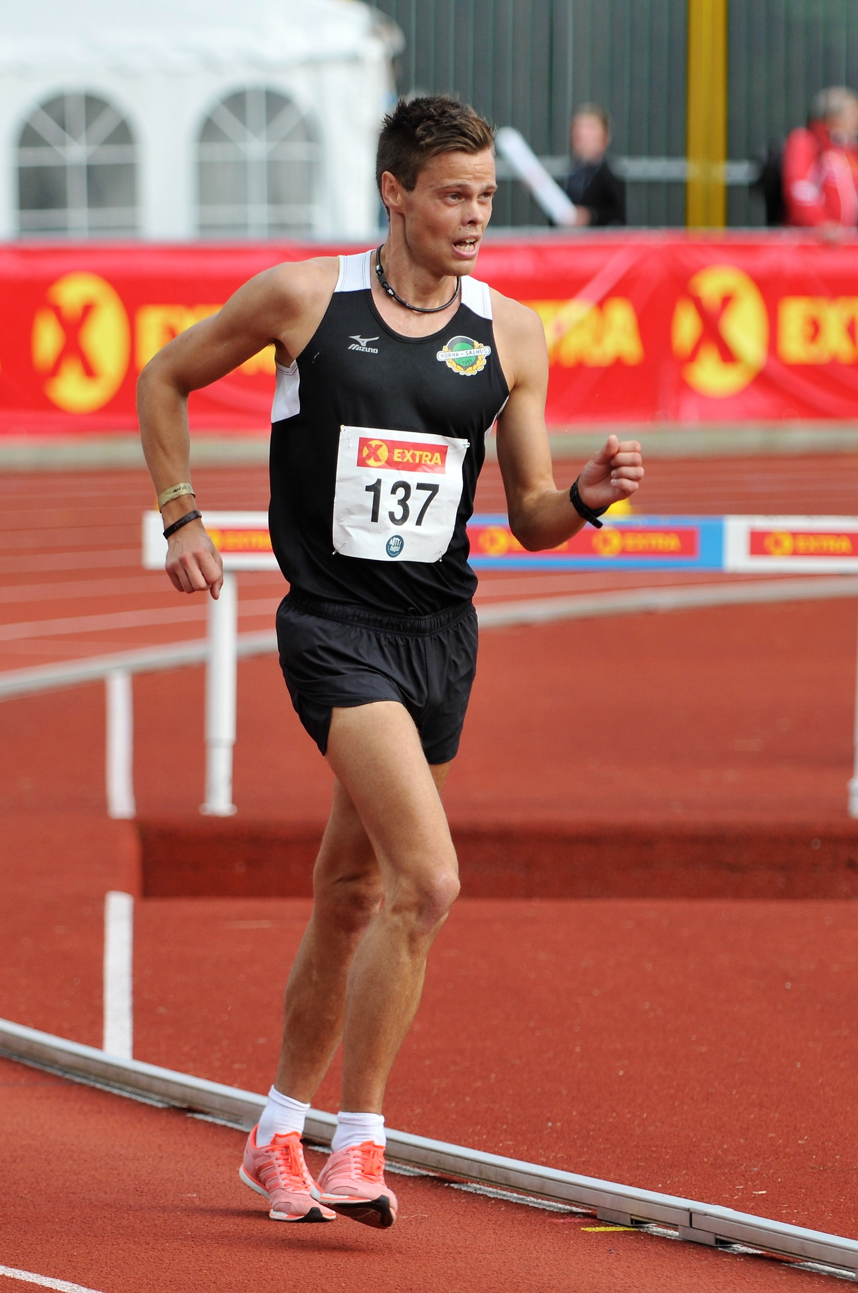 Håvard Haukenes on his way to a gold in 5000 m race walking at the Norwegian Athletics Championships in Sandnes 2017.